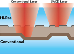 Super Audio CD example.